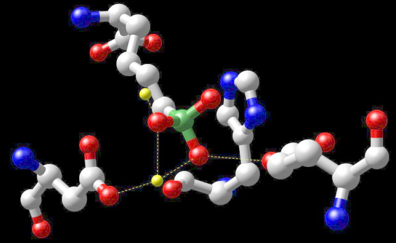 Tetrahedral intermediate with boronic acid inhibitor ABH